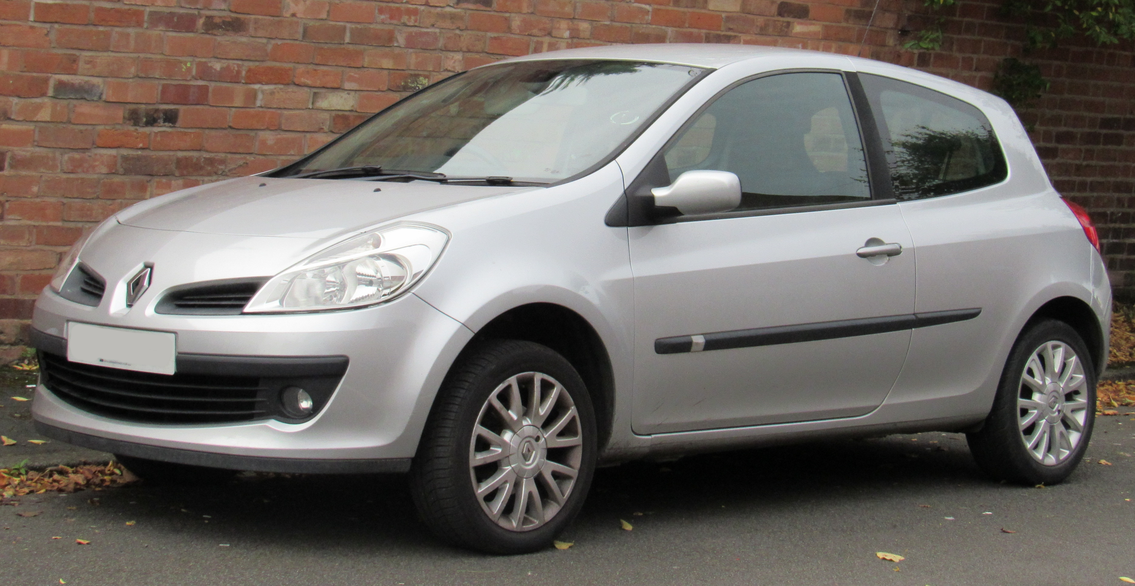 2008 Renault Clio Dynamique DCI 86 1.5 Front Taken in Leamington Spa